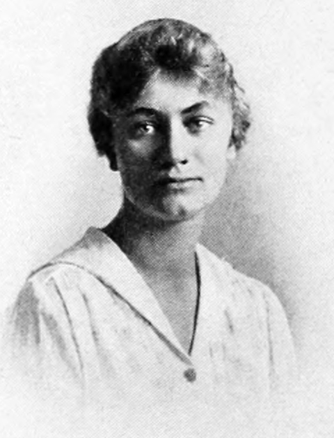 Photograph of Dorothy Graffe (later Van Doren), president of the class of 1918 at Barnard College